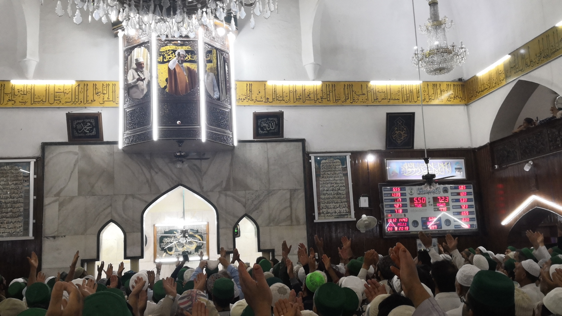 This is a picture taken from inside the shrine when the head cleric diaplays the relic to the public